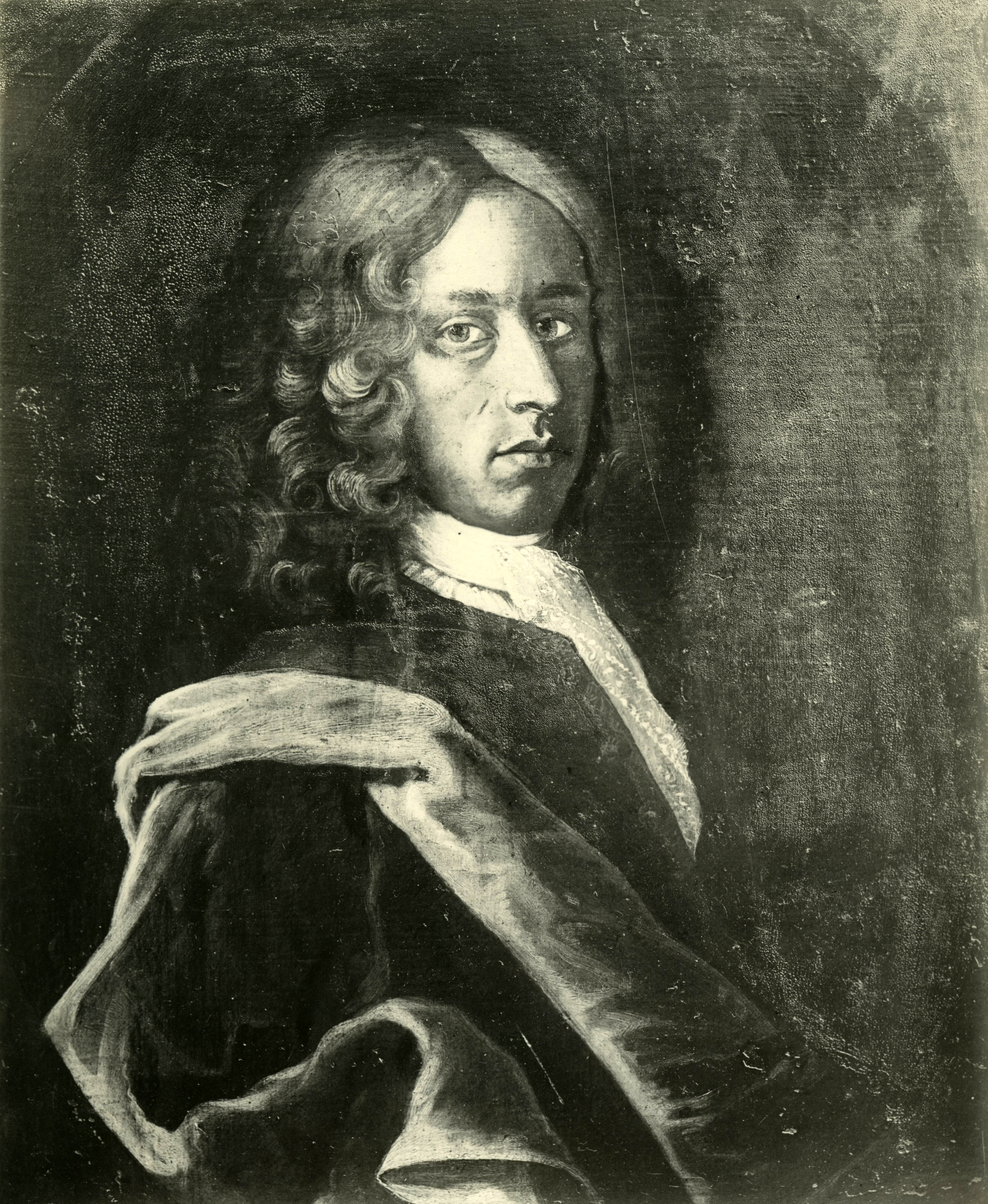 Niels Ebbesen Tønder (Niels Tønder) (1700–65). Photographed by Erik Olsen in 1897 in connection with the exhibition Trondhjems 900-årsjubileum.